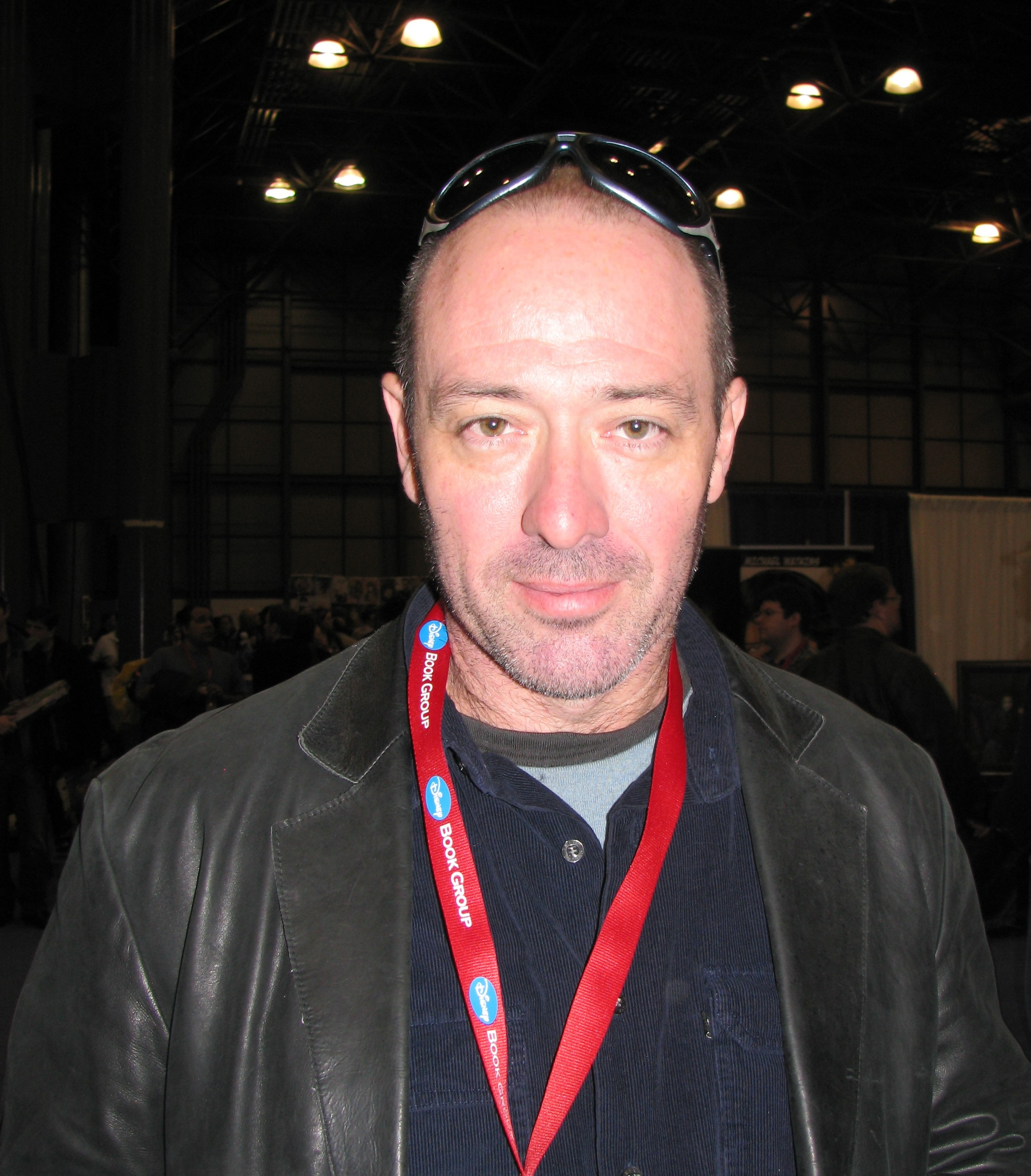 Writer John Birmingham in the main hall of New York Comic Con 2009 at the Javitz Exhibition Centre.